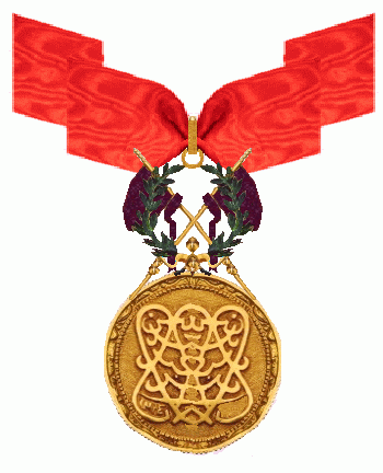 The Government of Zanzibar Medal 1876 instituted by Sultan Sayyid Barghash bin Said